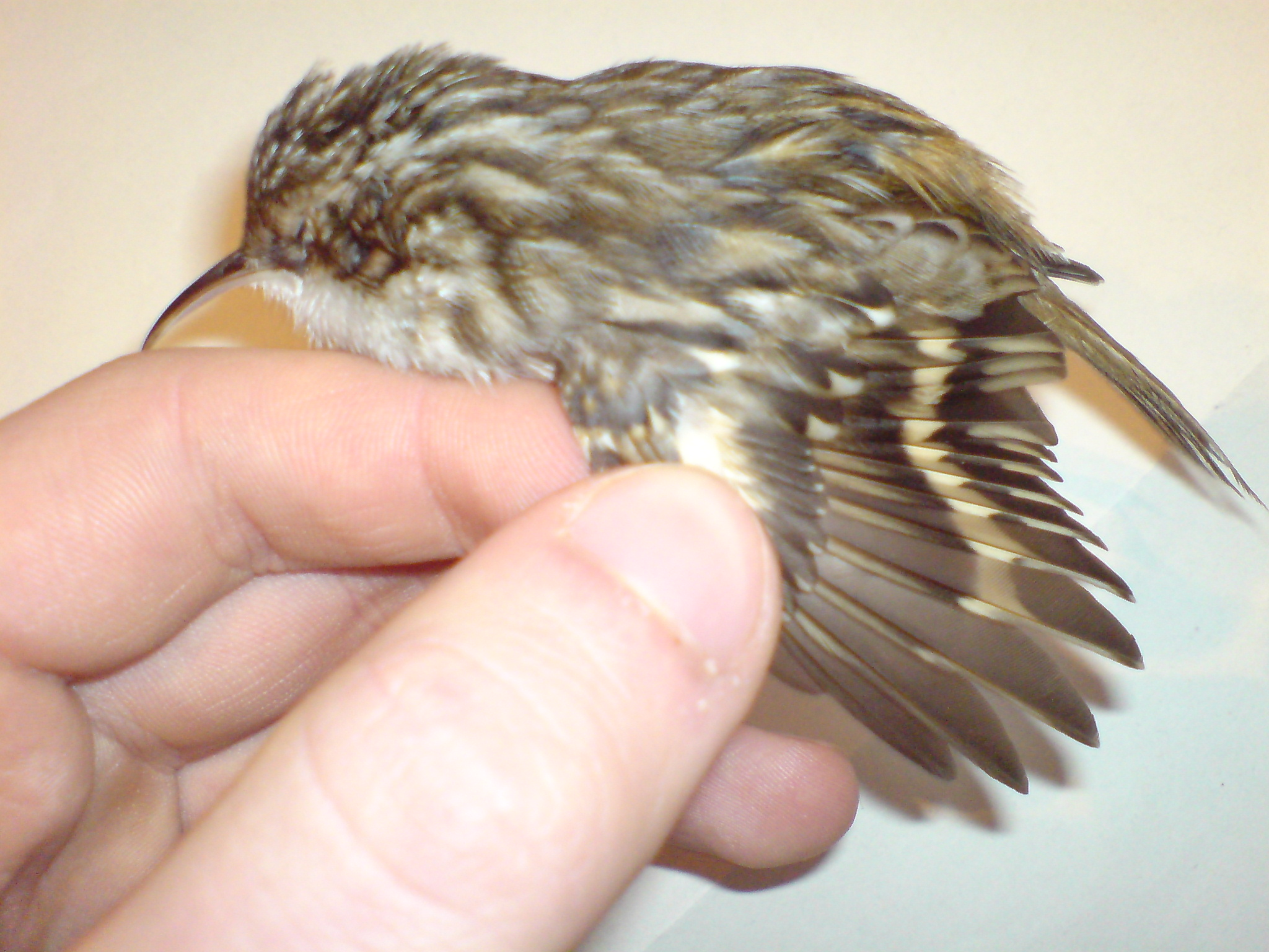 dead Certhia brachydactyla from Germany